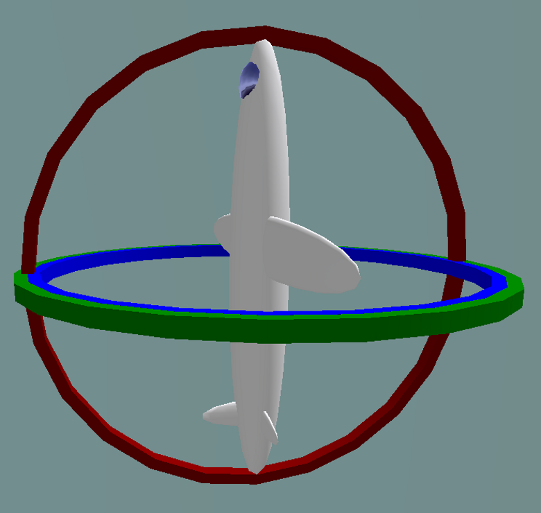 Not of very good quality, but illustrates the gimbal lock article quite well. This is the second of a set of two pictures. This picture shows a plane and a set of gimbals (enlarged for visibility) at the end, where one of the gimbals has moved so to be in the same plane as another one. If the plane rotates along the yaw axis, this won't be reflected anymore on the set of gimbals ("gimbal lock"). Any offer to redraw it is welcome.